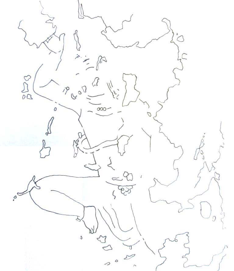 Drawing of an ancient painting found from Vessagiriya caves, Anuradhapura, Sri Lanka, depicting a flying deity. Belongs to Anuradhapura era.